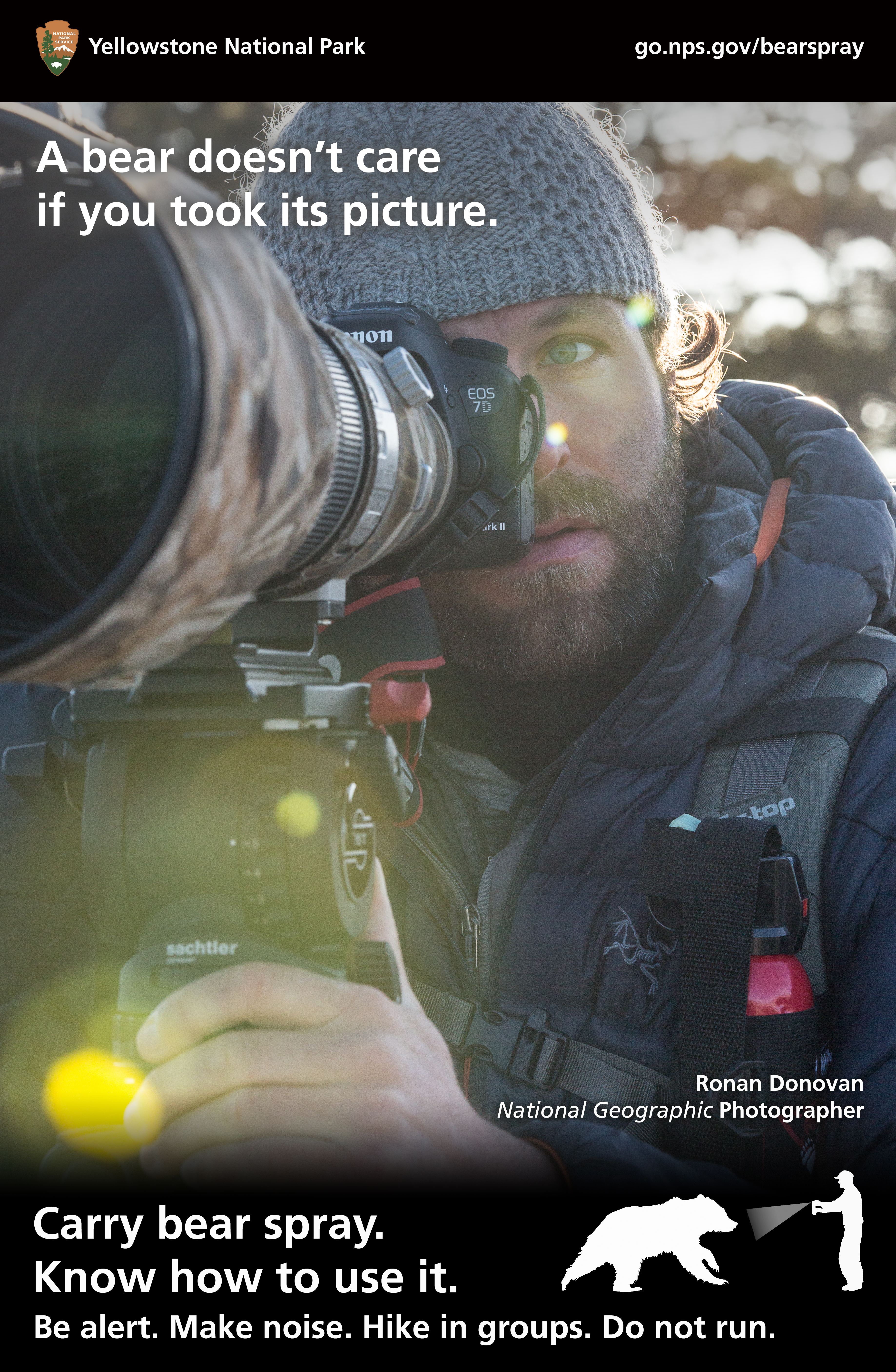 Ronan Donovan, National Geographic Photographer